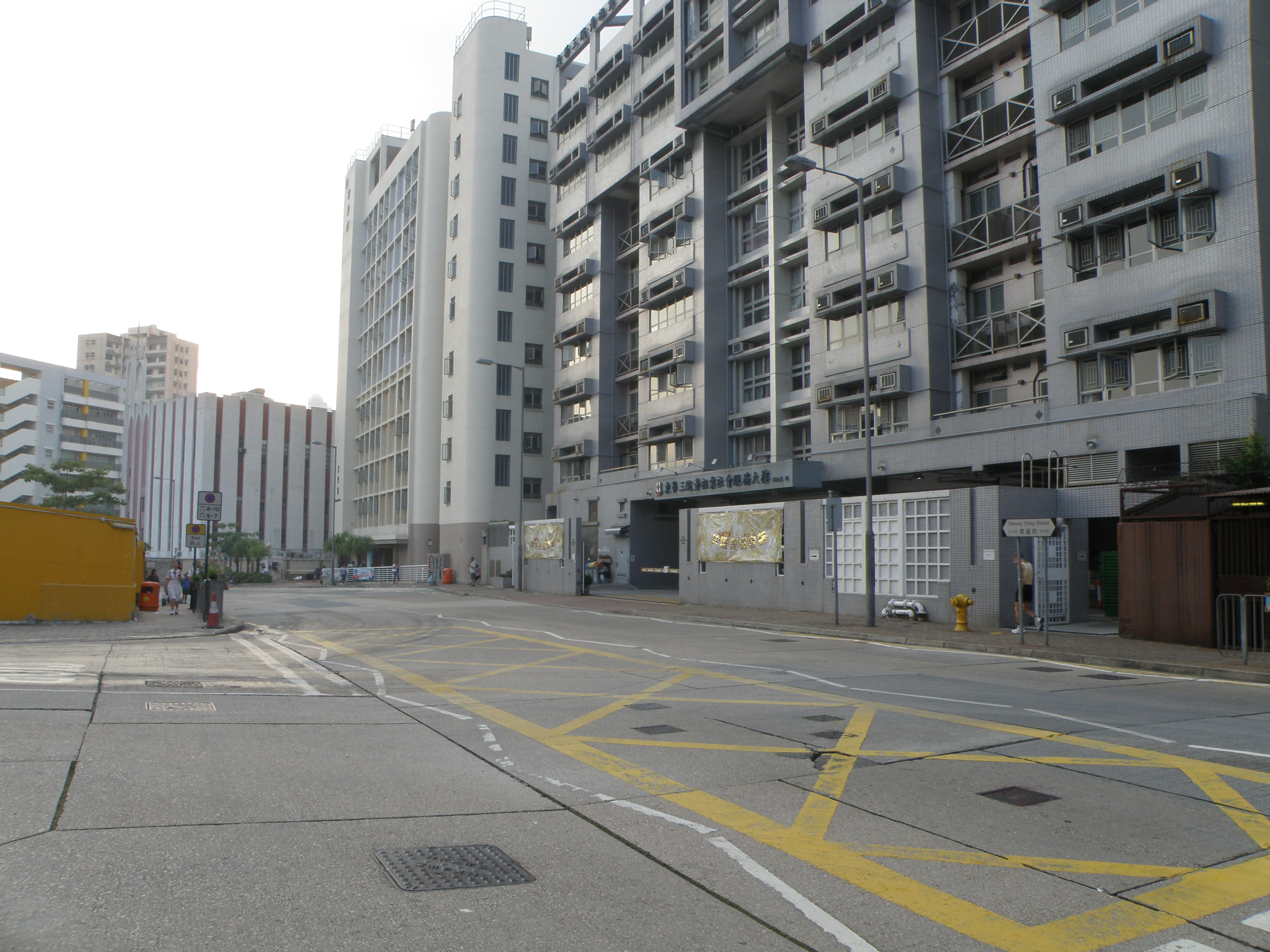 Sheung Shing Street in Ho Man Tin, Hong Kong.